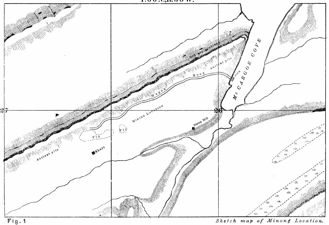 Survey drawing of the Minong Mine location — a historic copper mine on Isle Royale, in northern Michigan. The Minong Mine Historic District is on the National Register of Historic Places in Isle Royale National Park.